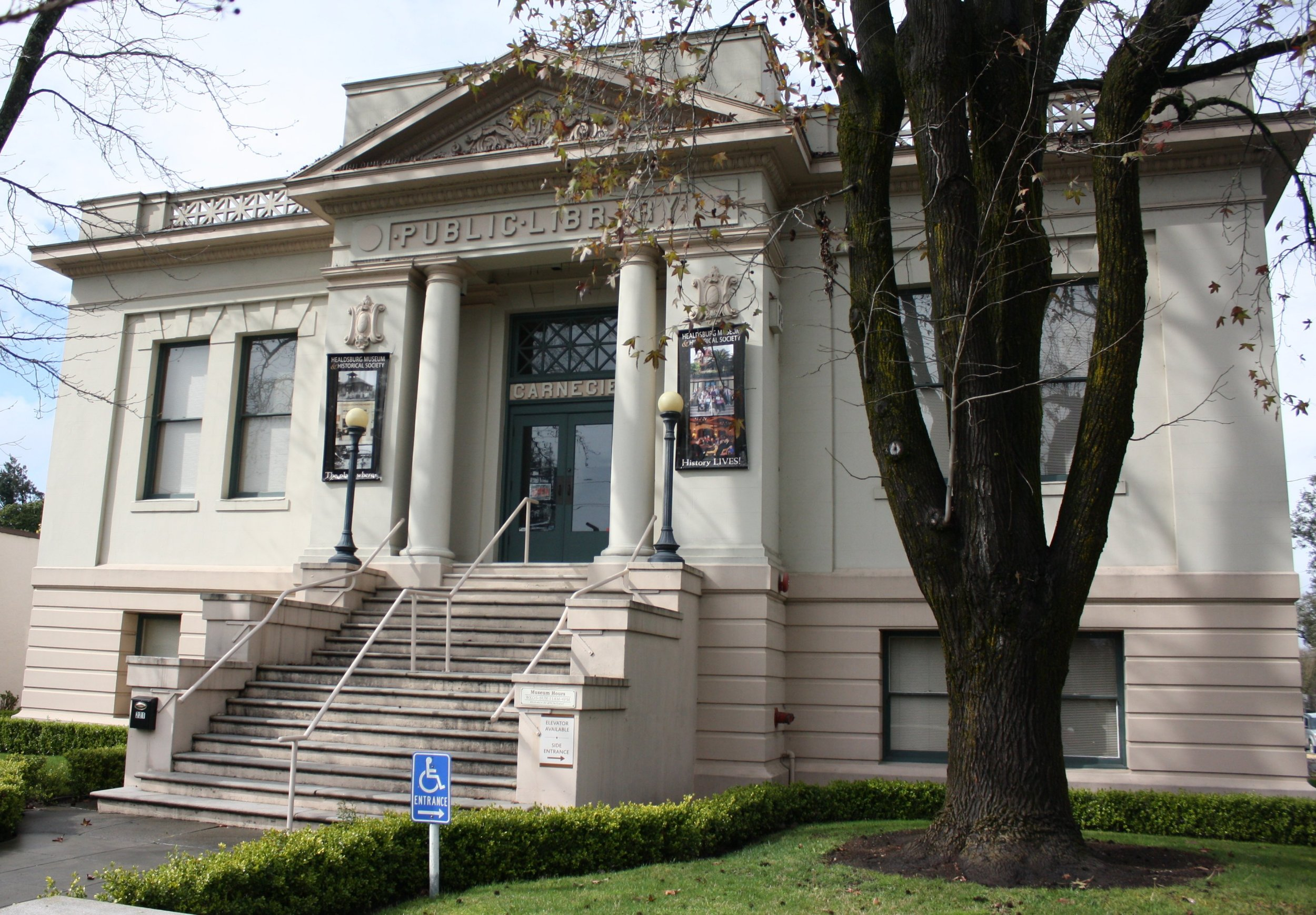 Healdsburg Museum, Healdsburg, Sonoma County, California